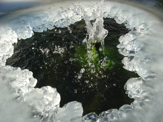 Fountain with ice